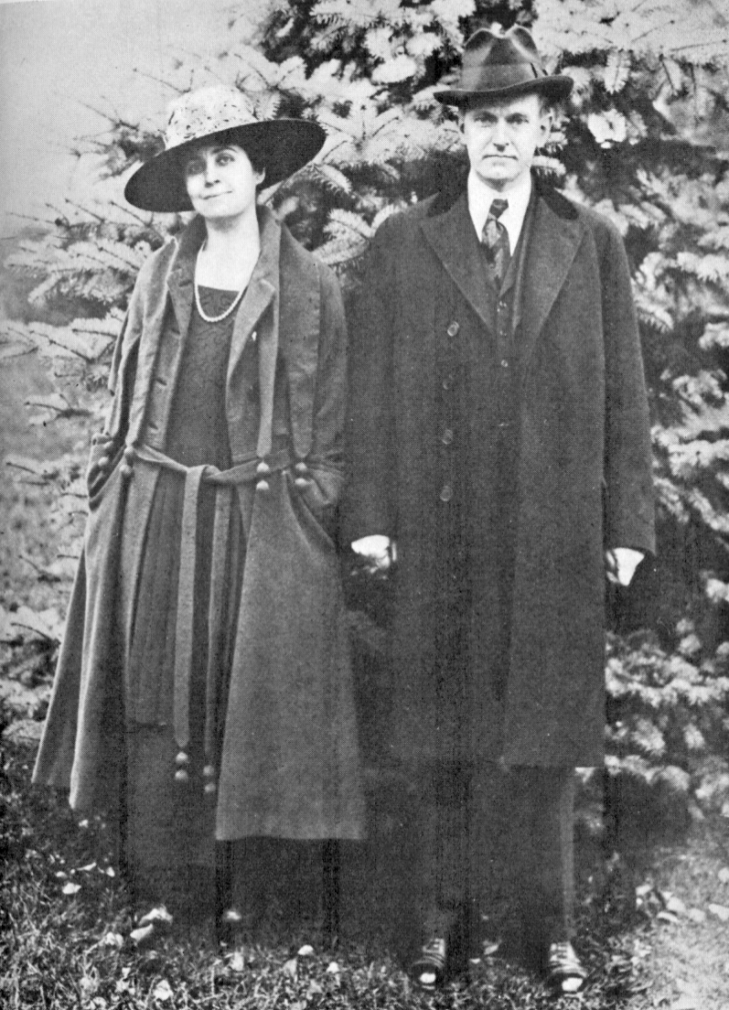 I don't know who the copyright holder is or who took the picture: the book didn't say. But the picture, as the name suggests, was of Calvin Coolidge and was labelled "Lieutenant Governor and Mrs. Coolidge" Given that he was Lt. Governor from 1916 - 1919, I think we can say that the picture was from before 1923.